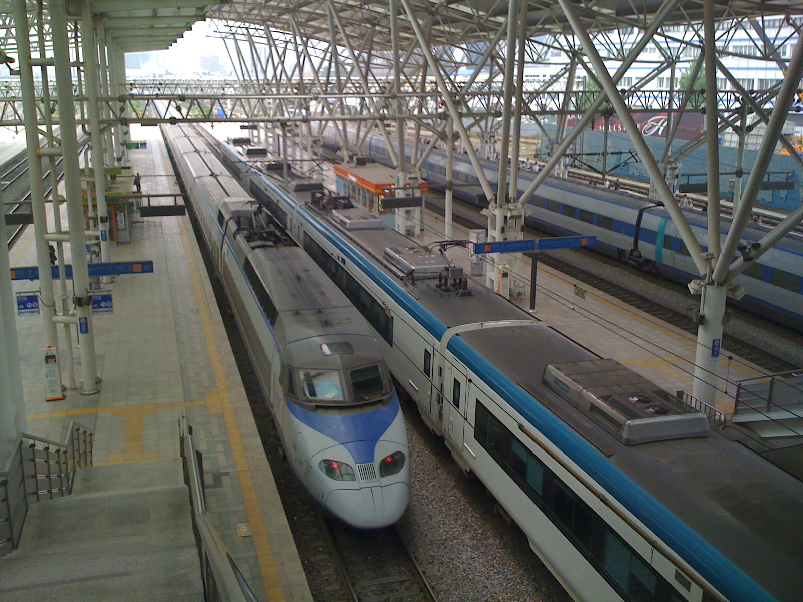 KTX at seoul station